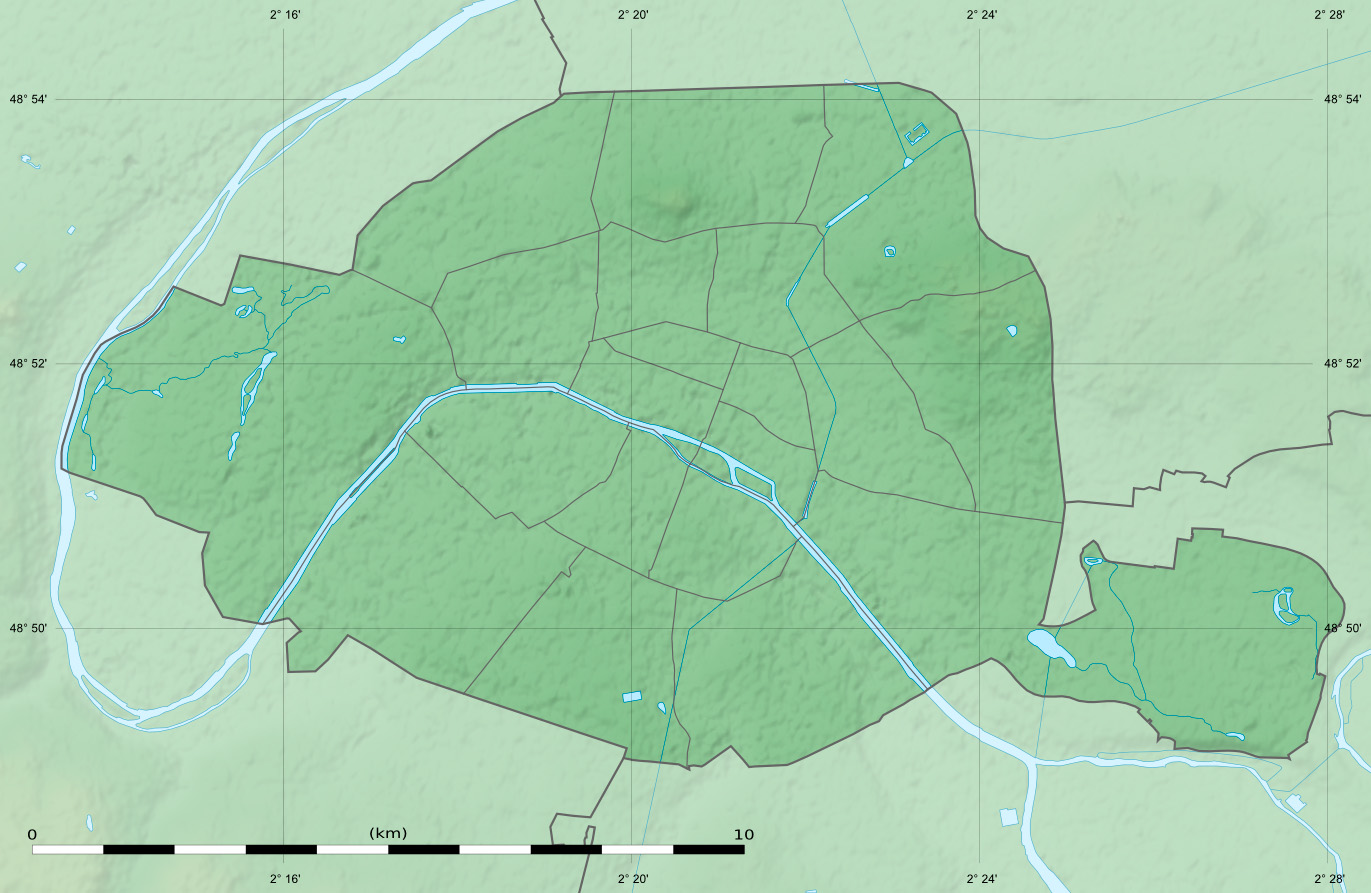 Blank physical map of the city and department of Paris, France, as in January 2011, for geo-location purpose, with distinct boundaries for departments and arrondissements.